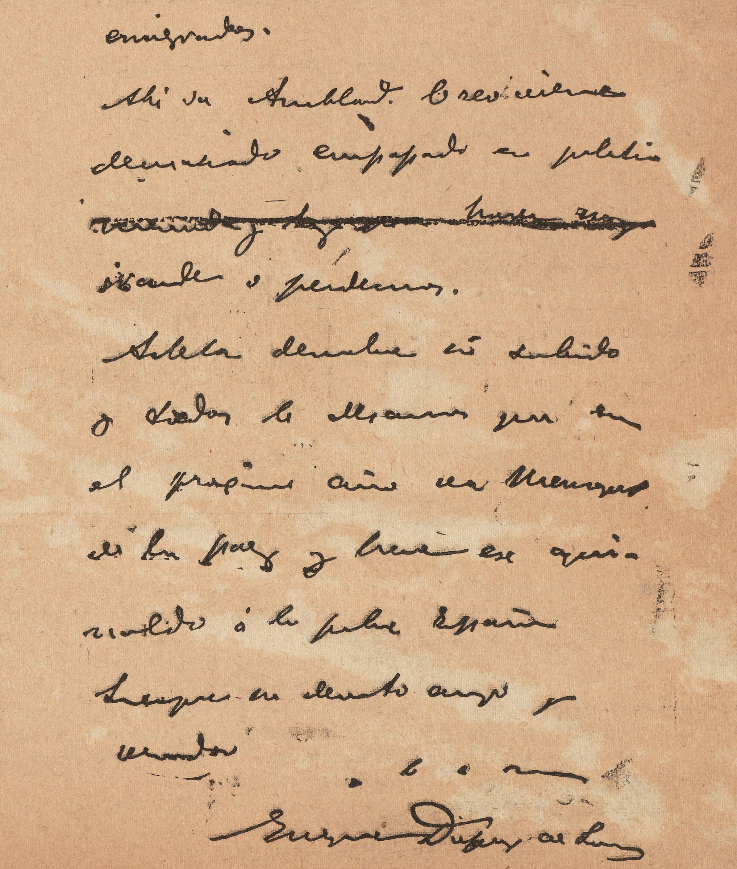 The last page of Enrigue Dupuy de Lôme's letter to Don José Canelejas, the Foreign Minister of Spain, about American intervention in Cuba - February, 1898.